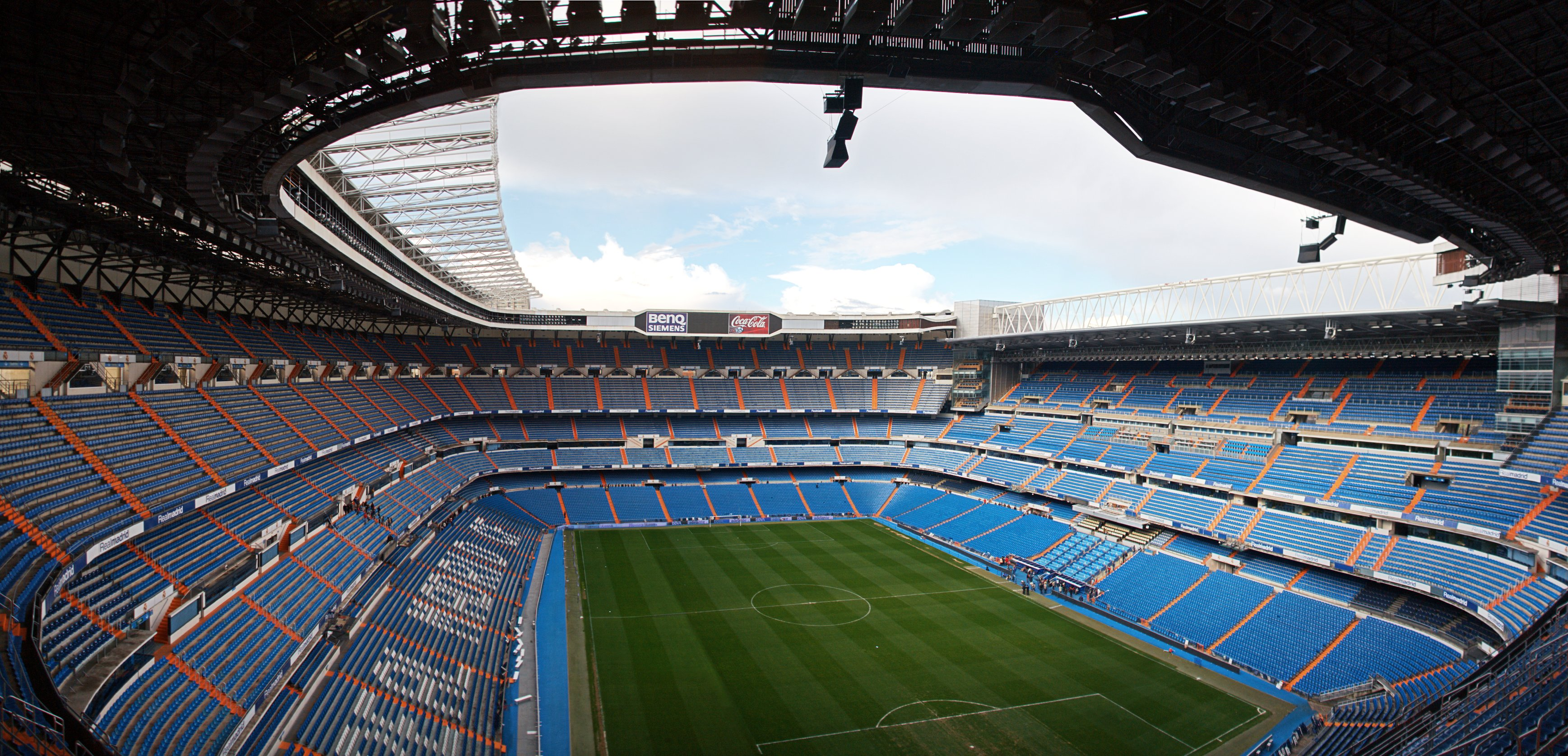 Alternate version number 2 of a previously uploaded image (a bit brighter/clearer). I have no idea why the 800 pixel preview for this one looks so horrible, but it's not my fault. The original is here: The first alternative version is here